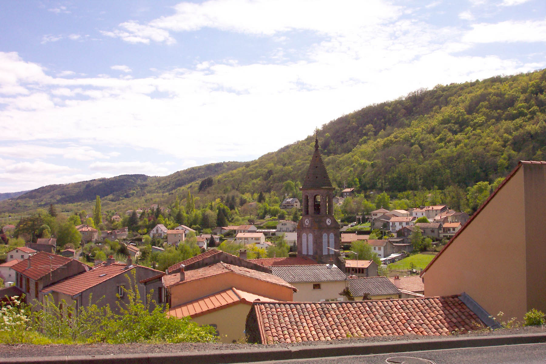 Photo of the town of Sayat (Puy-de-Dôme).